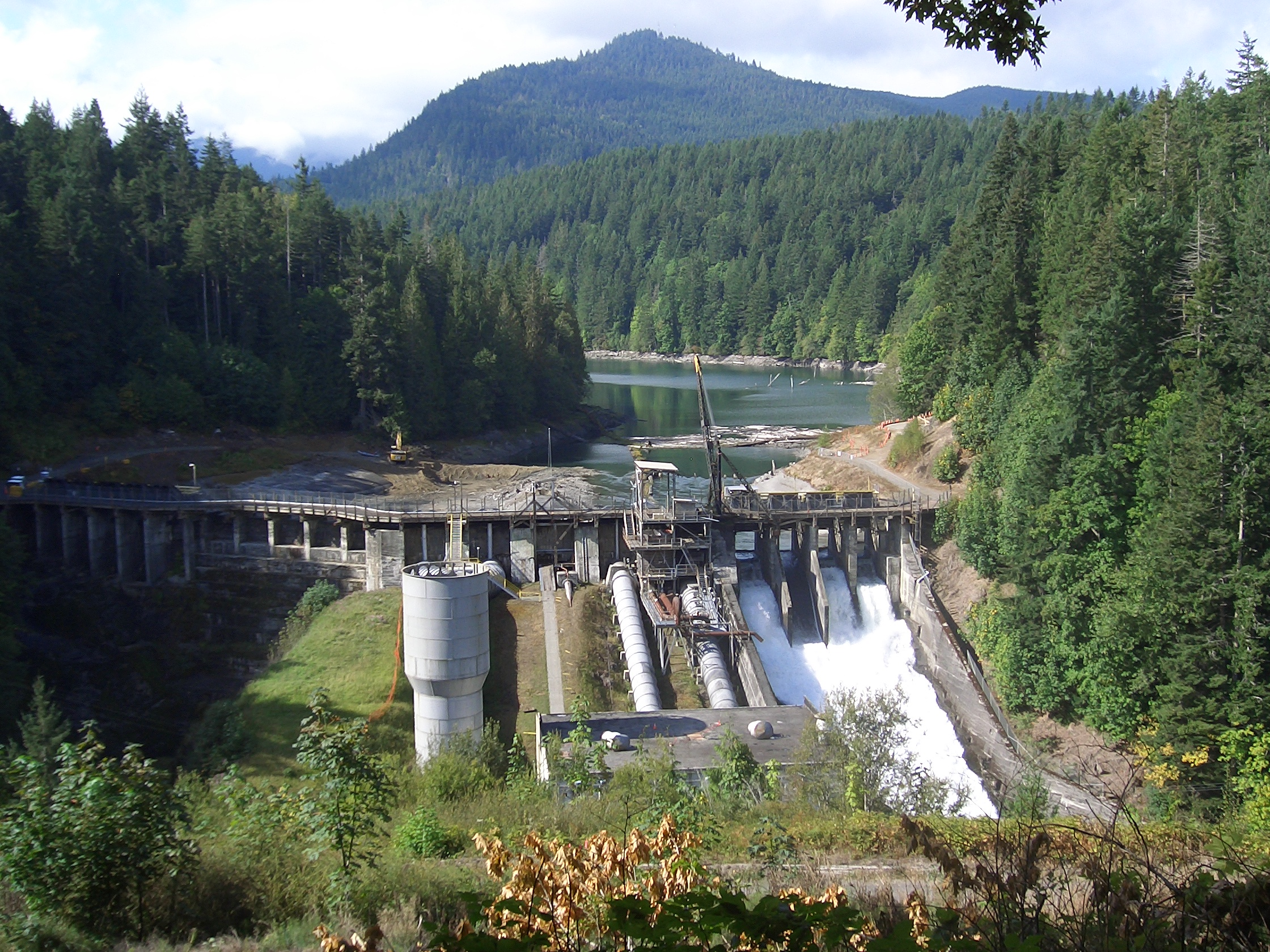 Elwha Dam, constructed 1913, undergoing deconstruction starting September 2011. The flow of the river has been diverted from the section of the dam on the left hand side of the photo to the spillway on the right, bringing down the level of the reservoir Lake Aldwell several feet to facilitate the deconstruction.